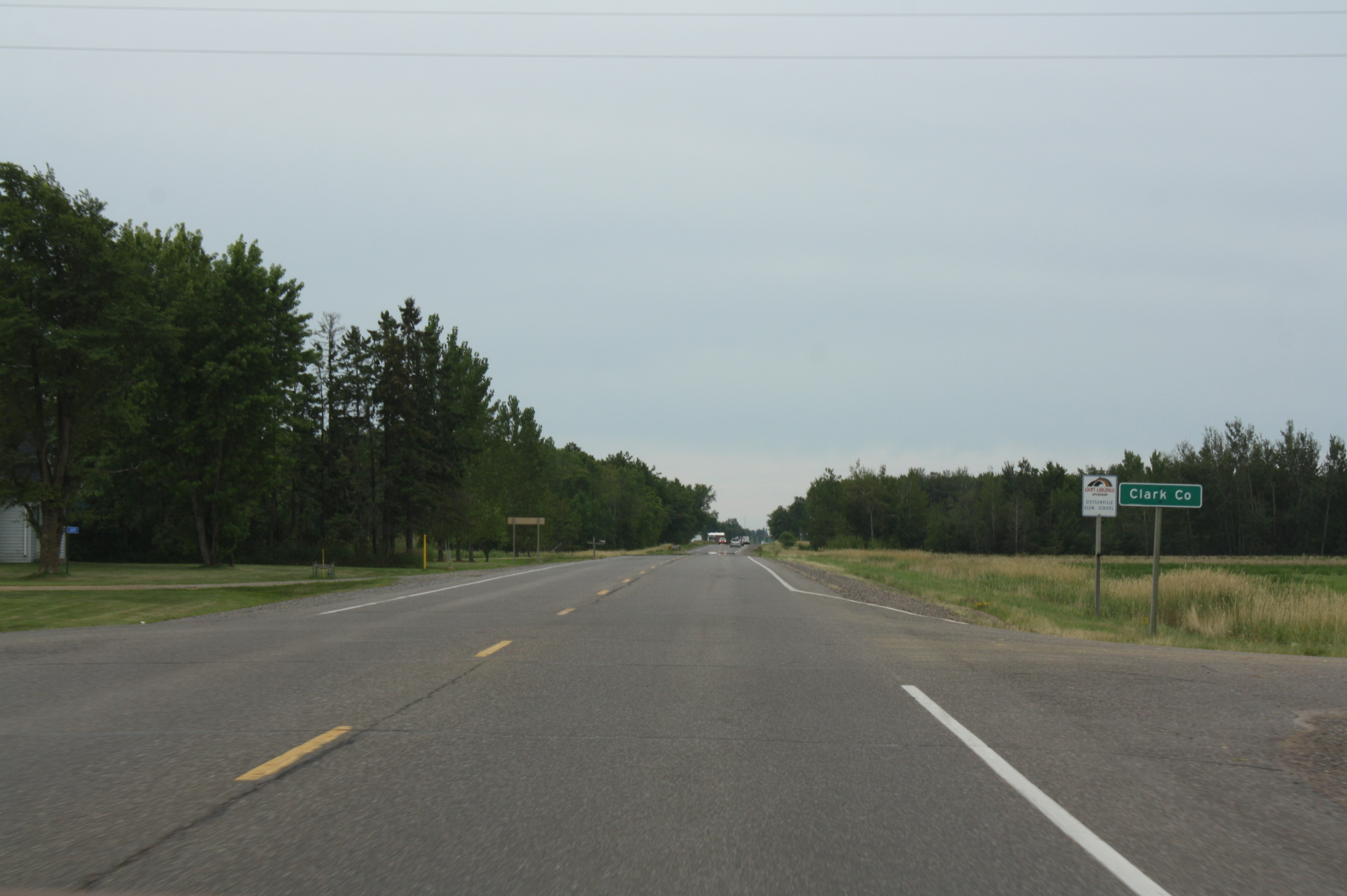 Looking at the sign for Clark County, Wisconsin on Wisconsin Highway 13.